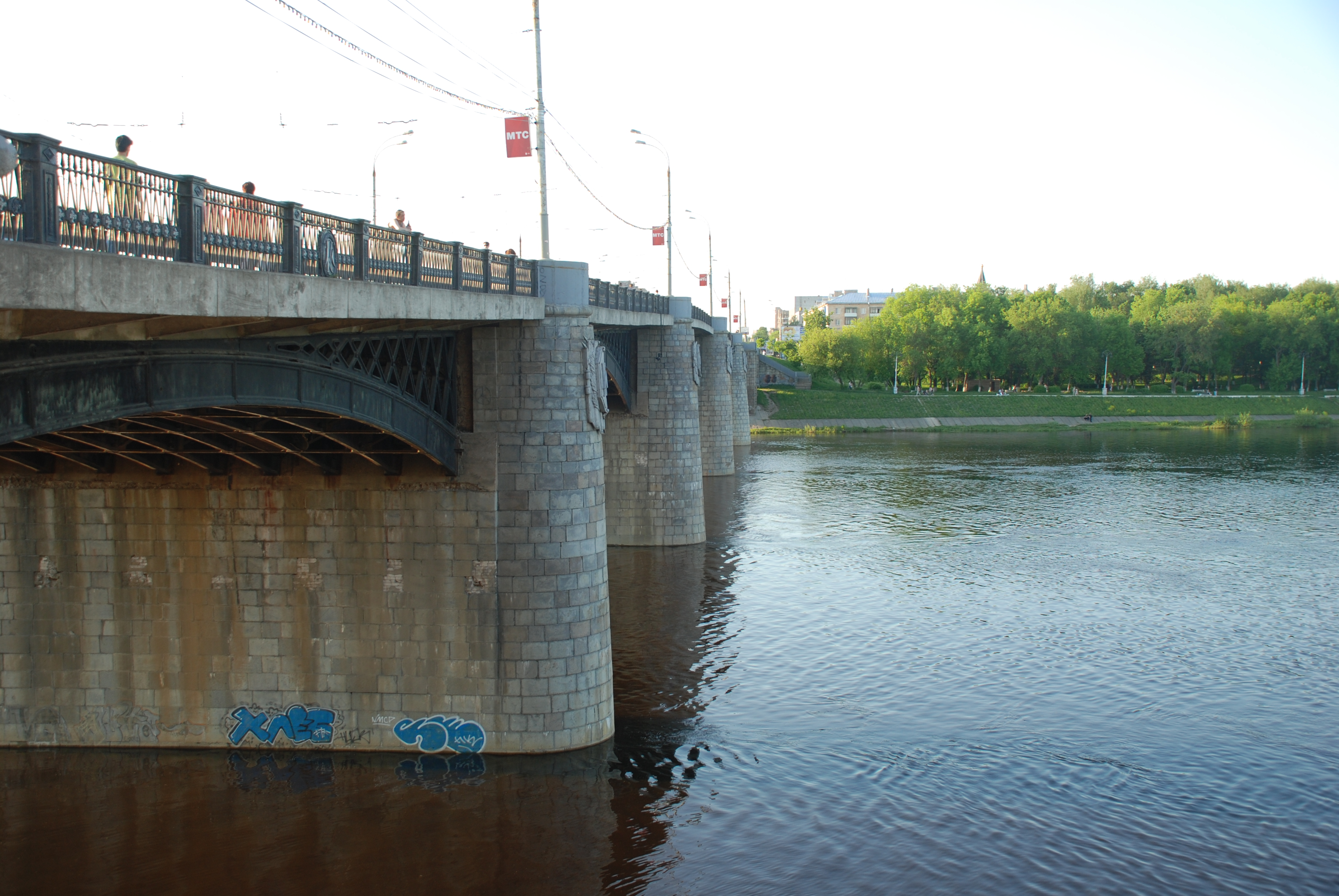 Novovolzhsky bridge (Tver)